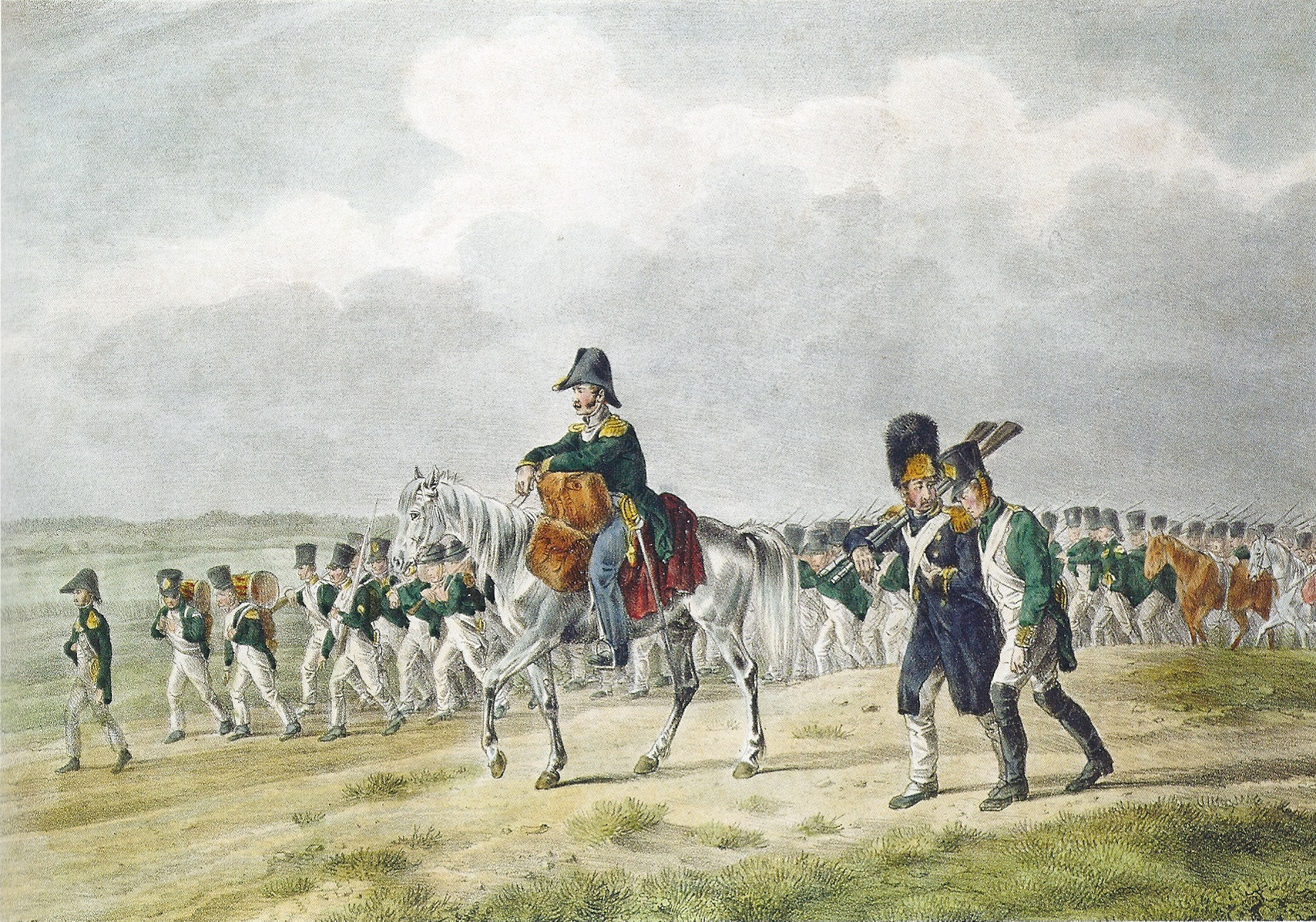 IV corps of the Grande Armeé in the invasion of Russia (1812)